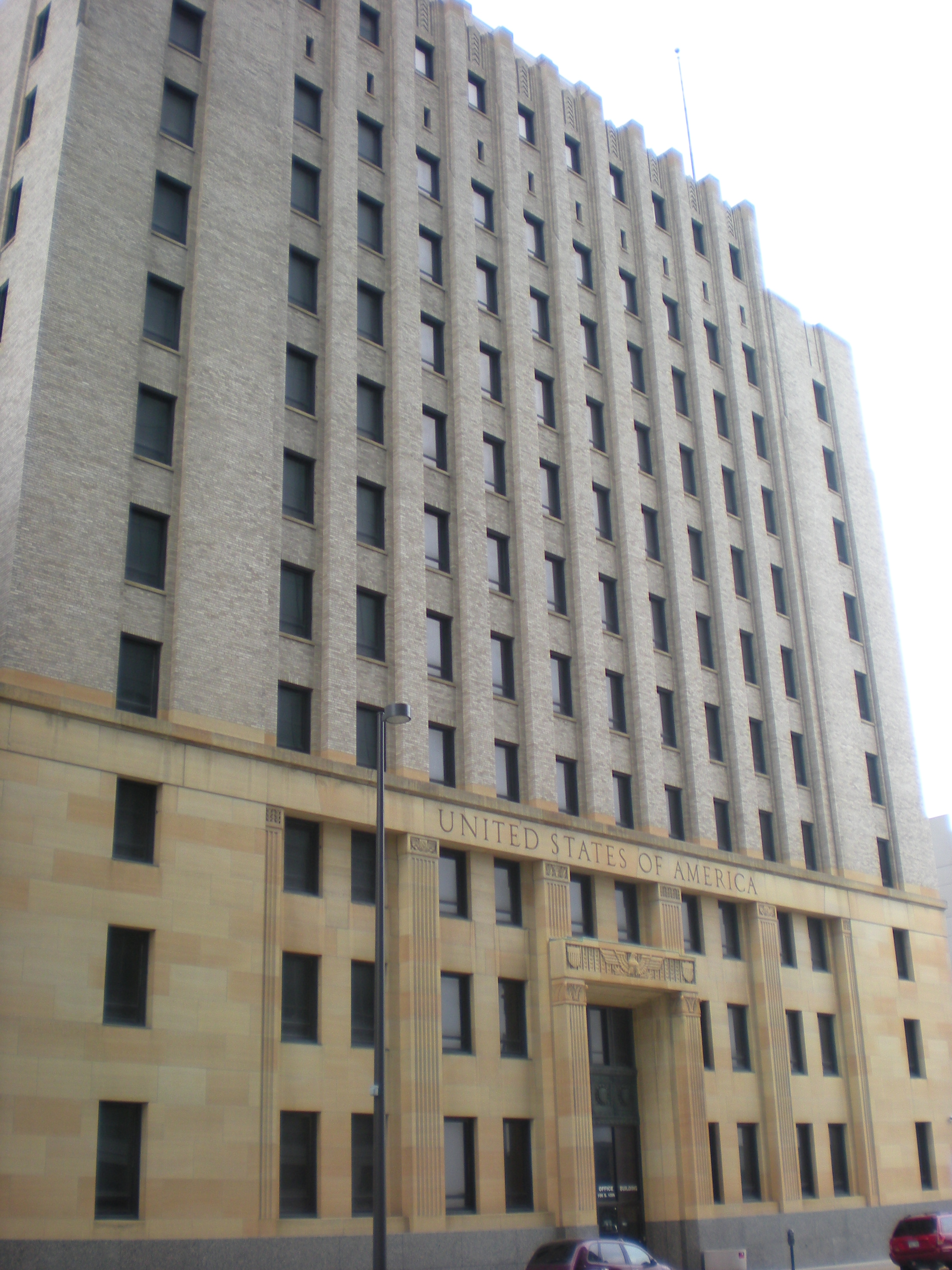 The Federal Office Building located in downtown Omaha, NE.